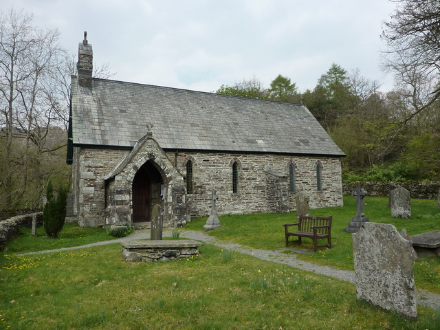 Holy Trinity Church, Seathwaite, Data from Geograph: Description: SD2296 :: Holy Trinity Church, Seathwaite, near to Seathwaite, Cumbria, Great Britain ICBM: 54.3549438123, -3.18720558182 Location: (about 0 km from) near to Seathwaite, Cumbria, Great Britain.